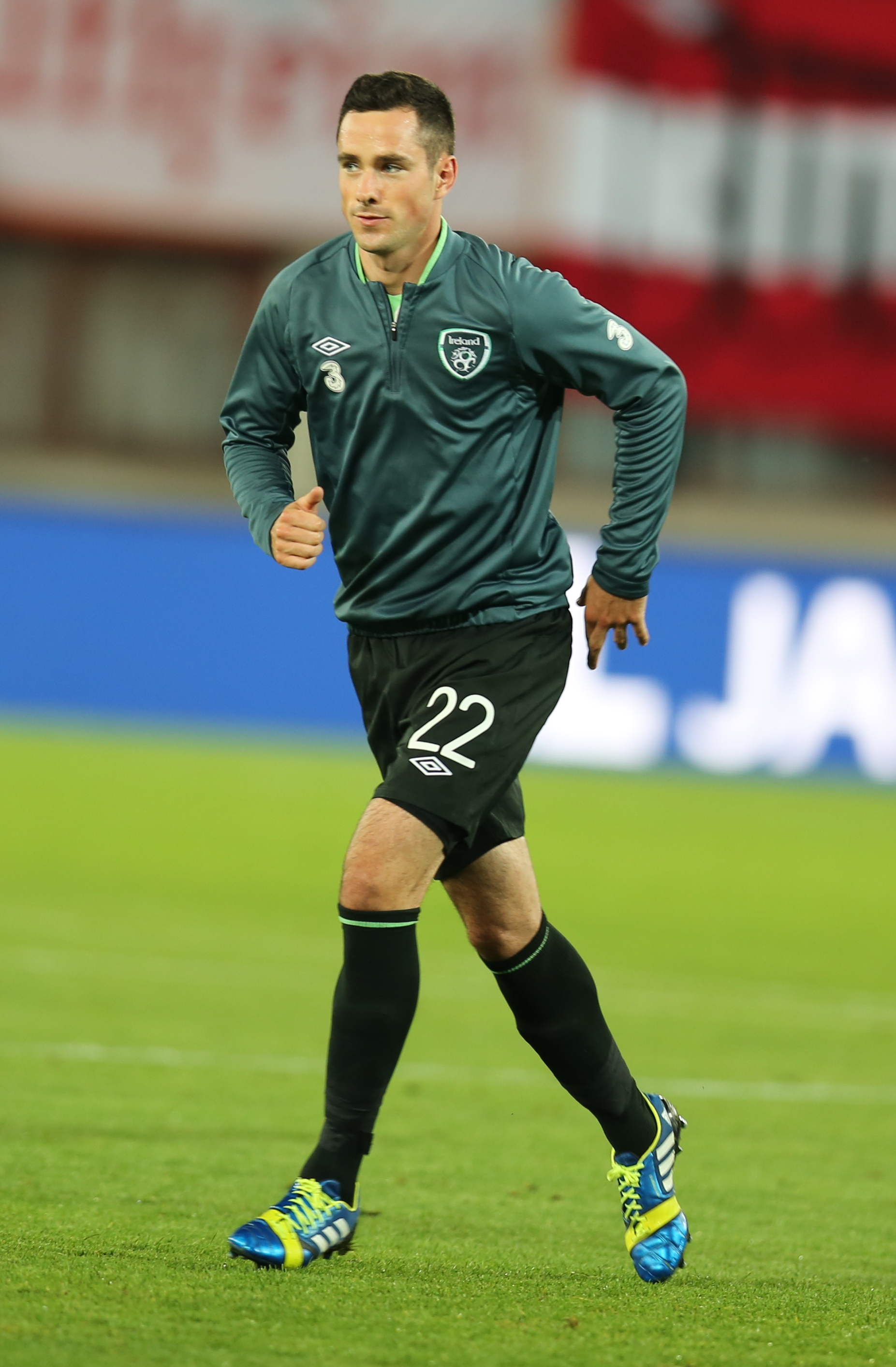 2014 FIFA World Cup qualification (UEFA), Group C: Republic of Ireland national football team at 10. September 2013 before the match against the Austria national football team in the Ernst-Happel-Stadion in Vienna. Here: Greg Cunningham. The making of this work was supported by Wikimedia Austria. For other files made with the support of Wikimedia Austria, please see the category Supported by Wikimedia Österreich.